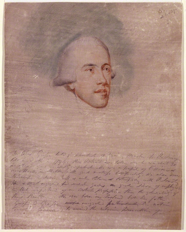 John Alexander Gresse by Unknown artist black and sepia crayon with coloured washes on paper, circa 1770 11 1/8 in. x 8 5/8 in. (283 mm x 219 mm) Given by E. Daly Lewis, 1947 Primary Collection NPG 4196